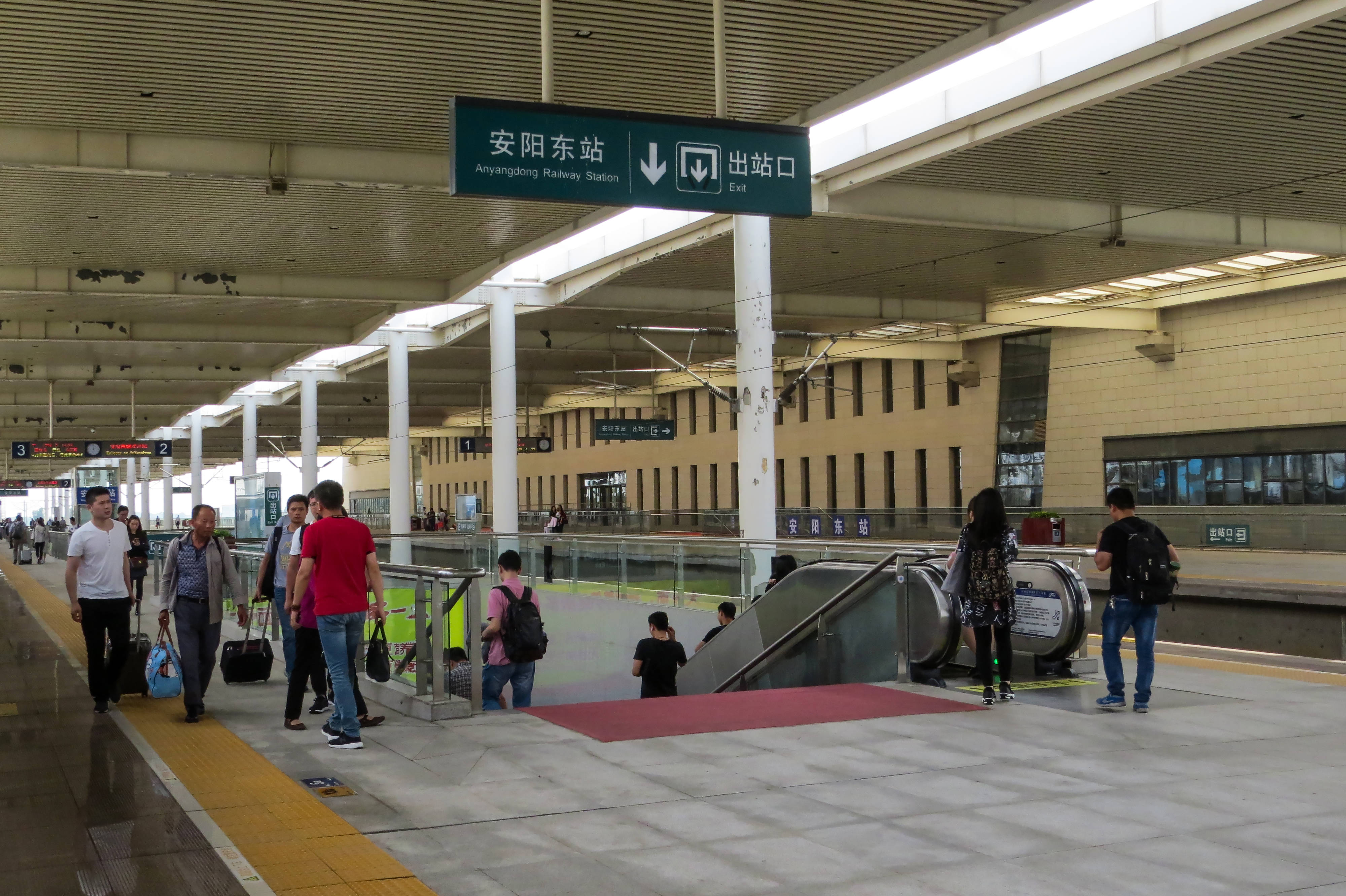 Taken during the stopover of G662. It's a "Kodama" in northern Henan - stops at every station between Zhengzhoudong and Anyangdong.